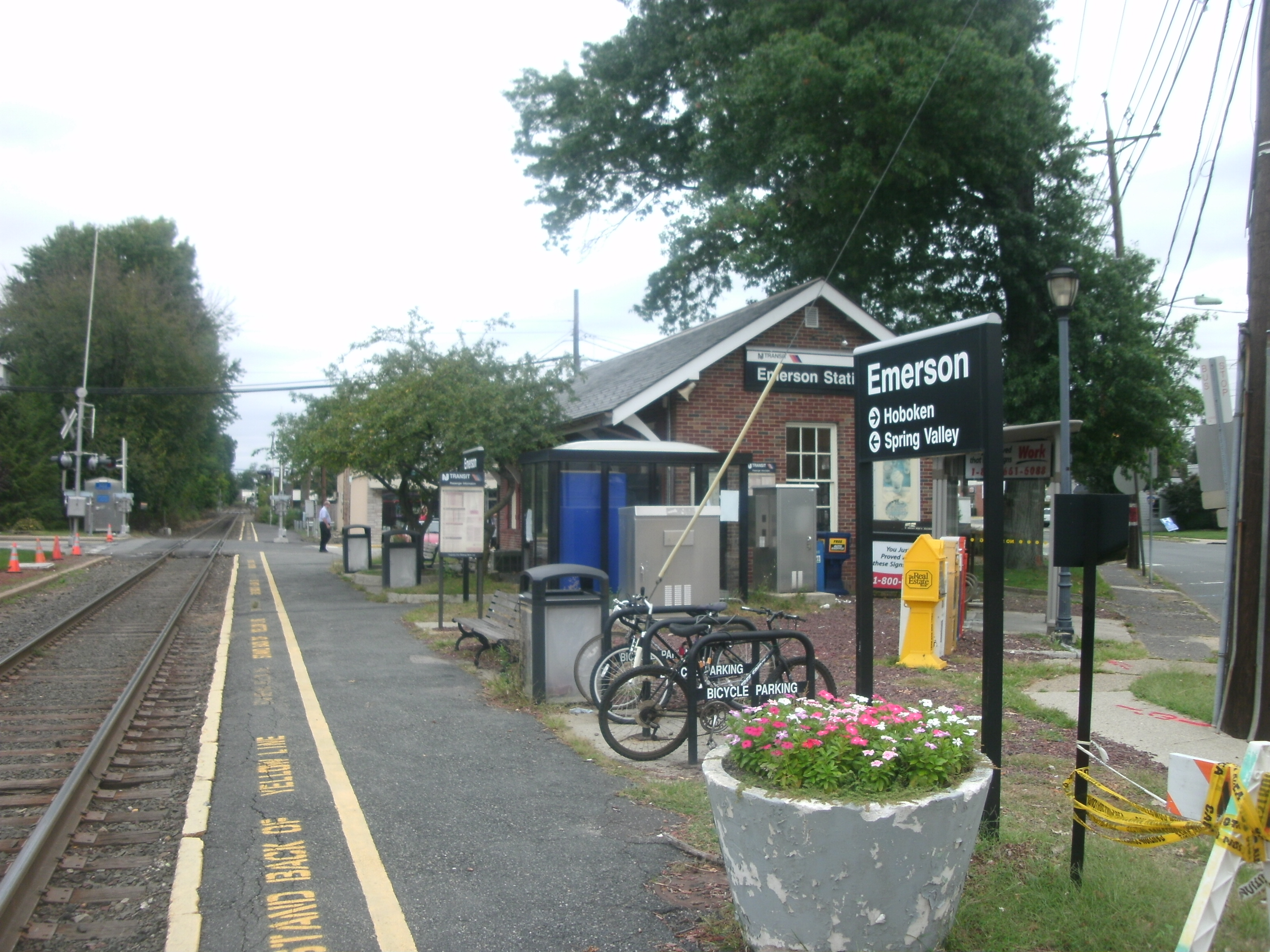 The New Jersey Transit (formerly Erie Railroad) station at Emerson, New Jersey.